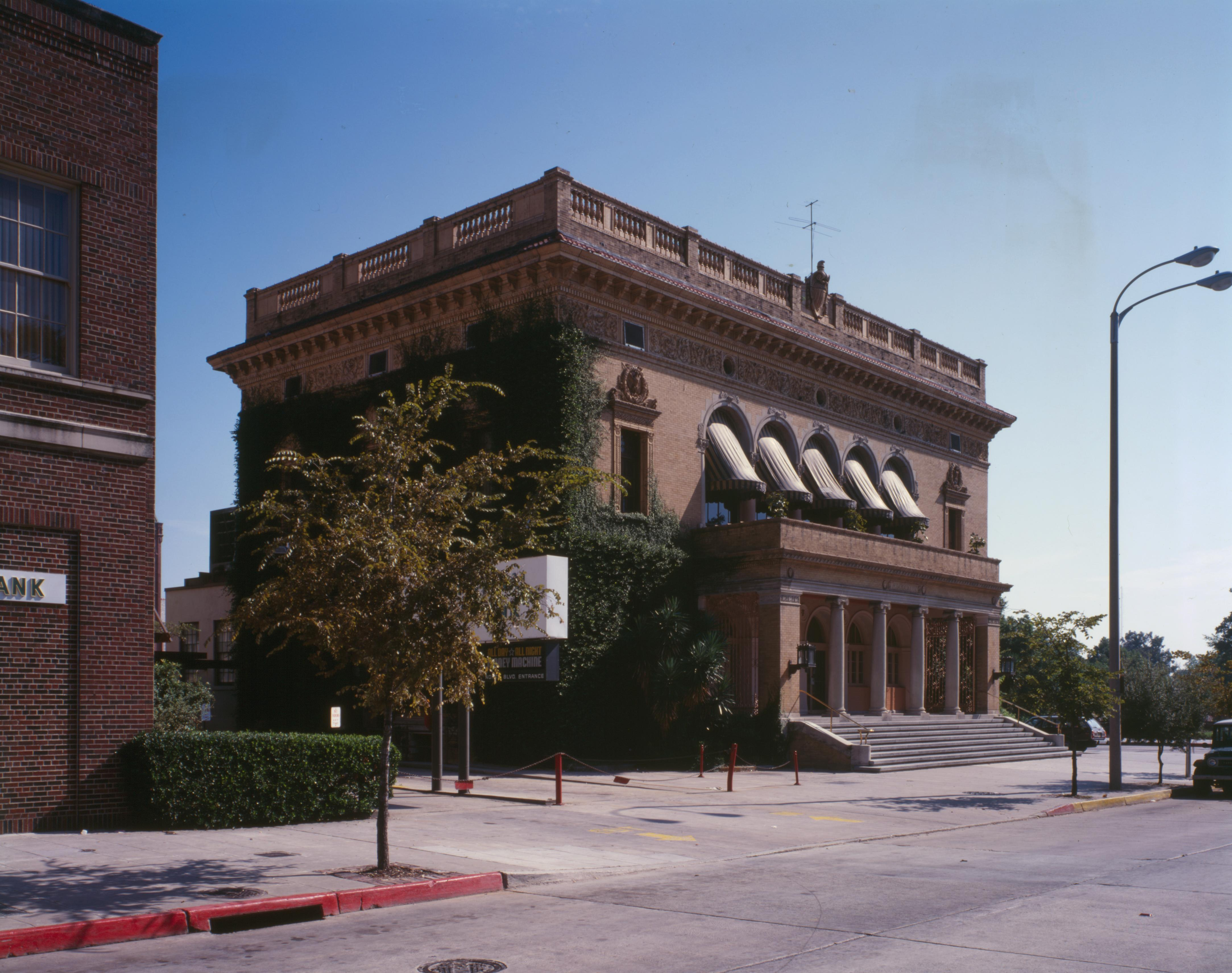 Front of the former Baton Rouge Post Office, located at 355 North Boulevard in Baton Rouge, Louisiana, United States. Built in 1894, it is part of the Downtown Baton Rouge Historic District, a historic district that is listed on the National Register of Historic Places.